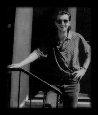 Biografy